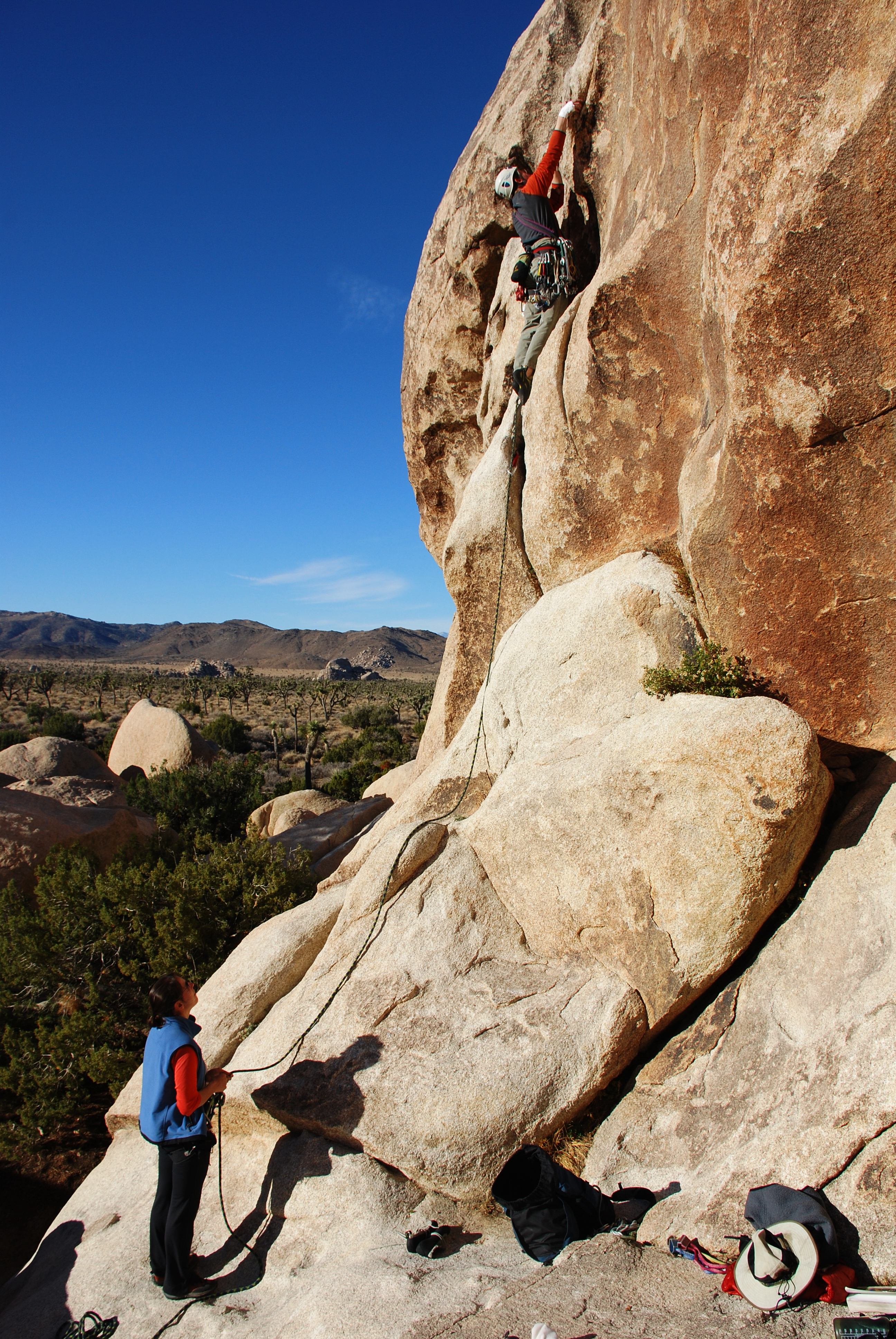 Joshua Tree National Park: Climbers on Lazy Day (5.7) on South Horror Rock.